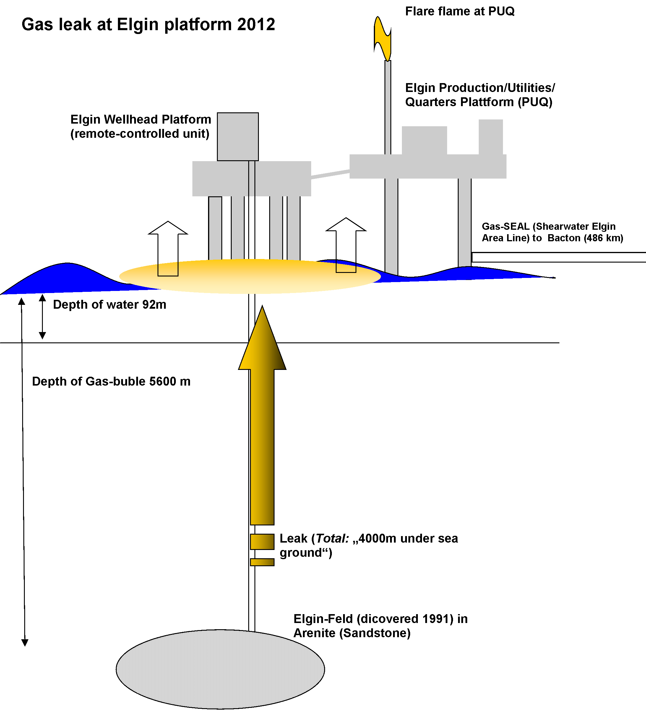 Elgin Plaform construction schema